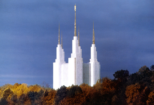 The Washington D.C. Temple of The Church of Jesus Christ of Latter-day Saints.